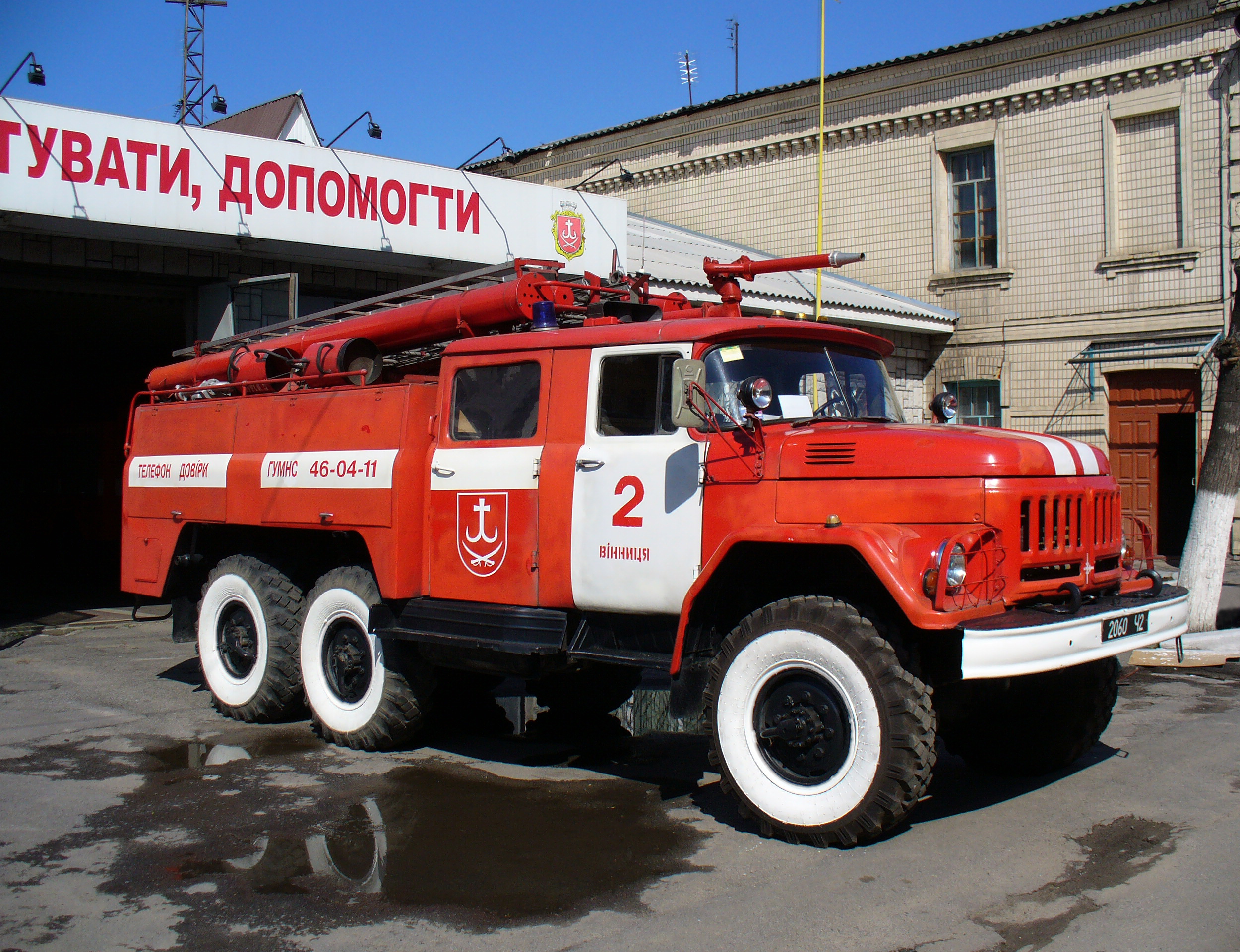 Fire engine (fire bluster tank truck) AC-40 on ZiL-131 chassis. Ukraine, Vinnitsa.